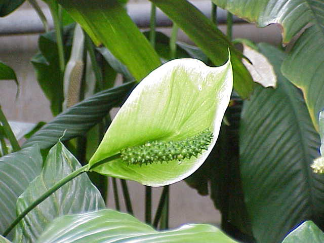 Species: Spathiphyllum cochlearispathum Family: Araceae Image No. 1